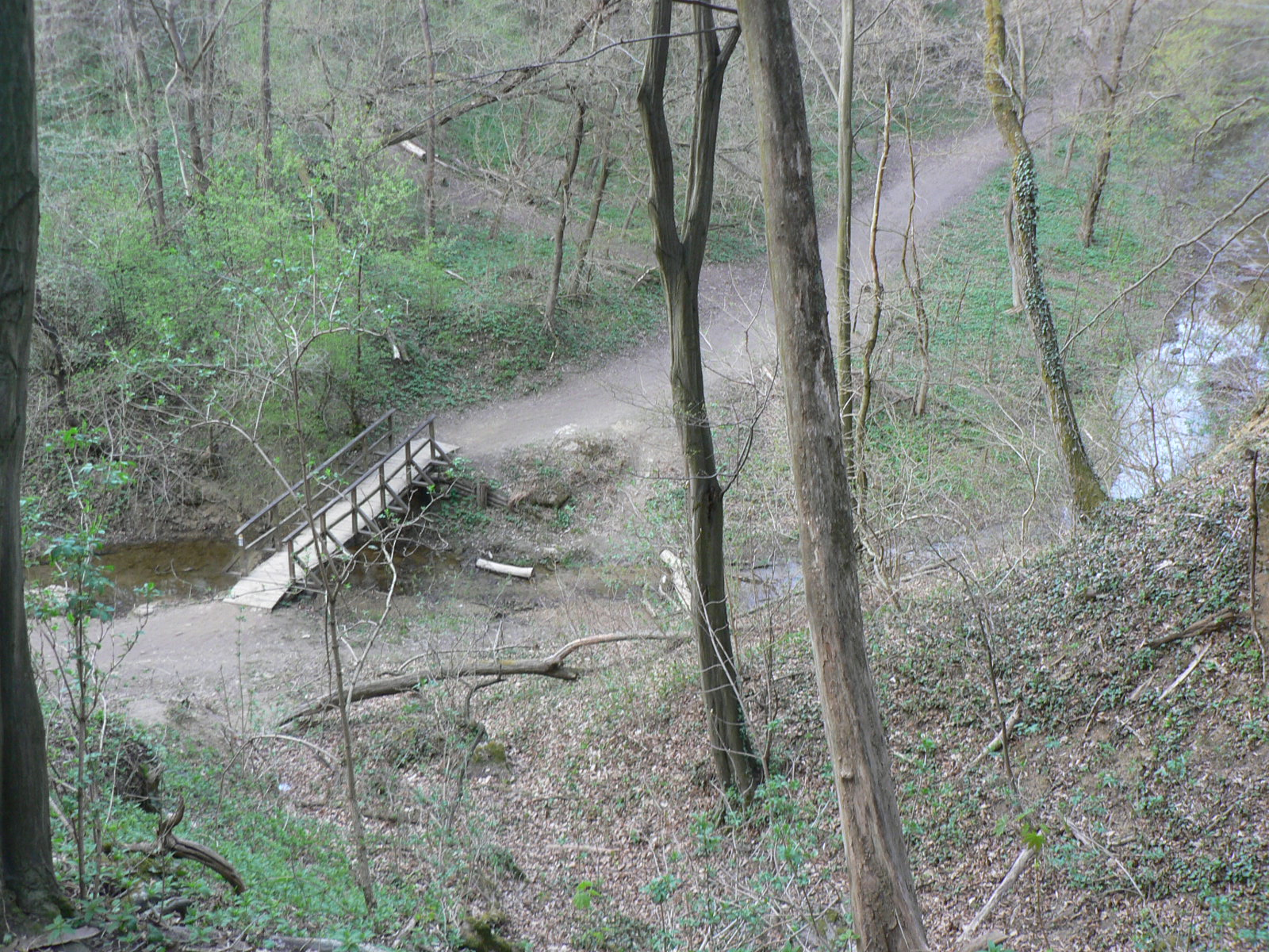 Jegenye-völgyi híd és patakszakasz a szurdokoldalból nézve